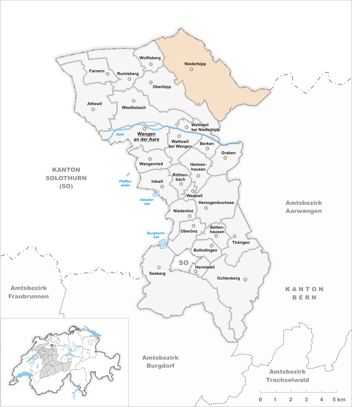 Municipality Niederbipp